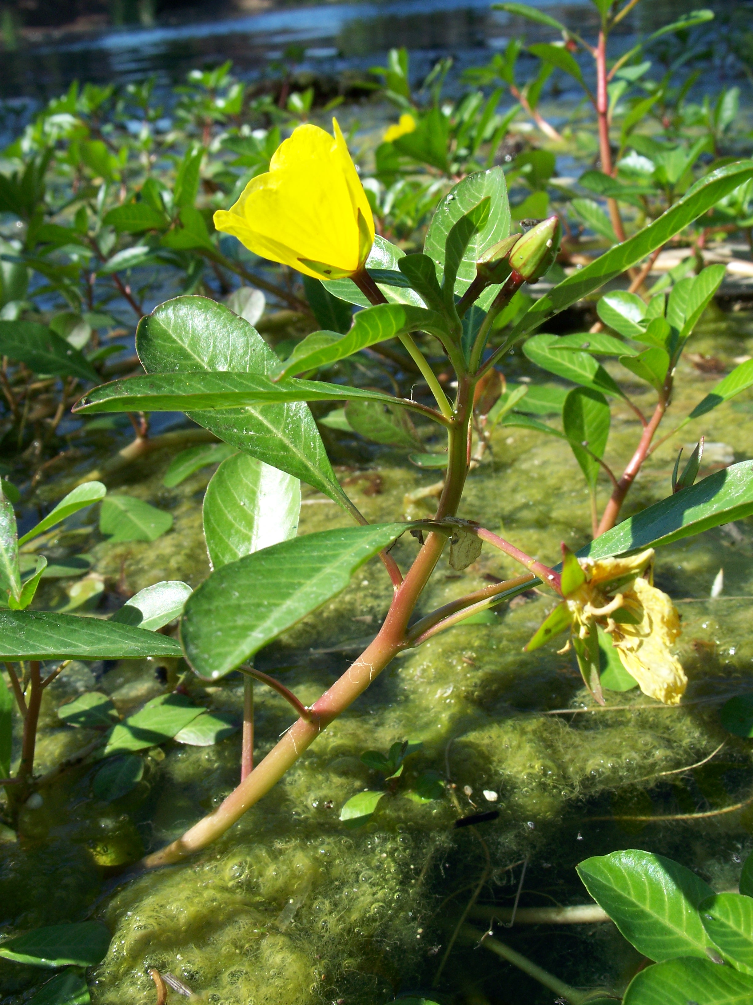 Made in San Jose, California, USA. Identified by Aroche and Uleli.